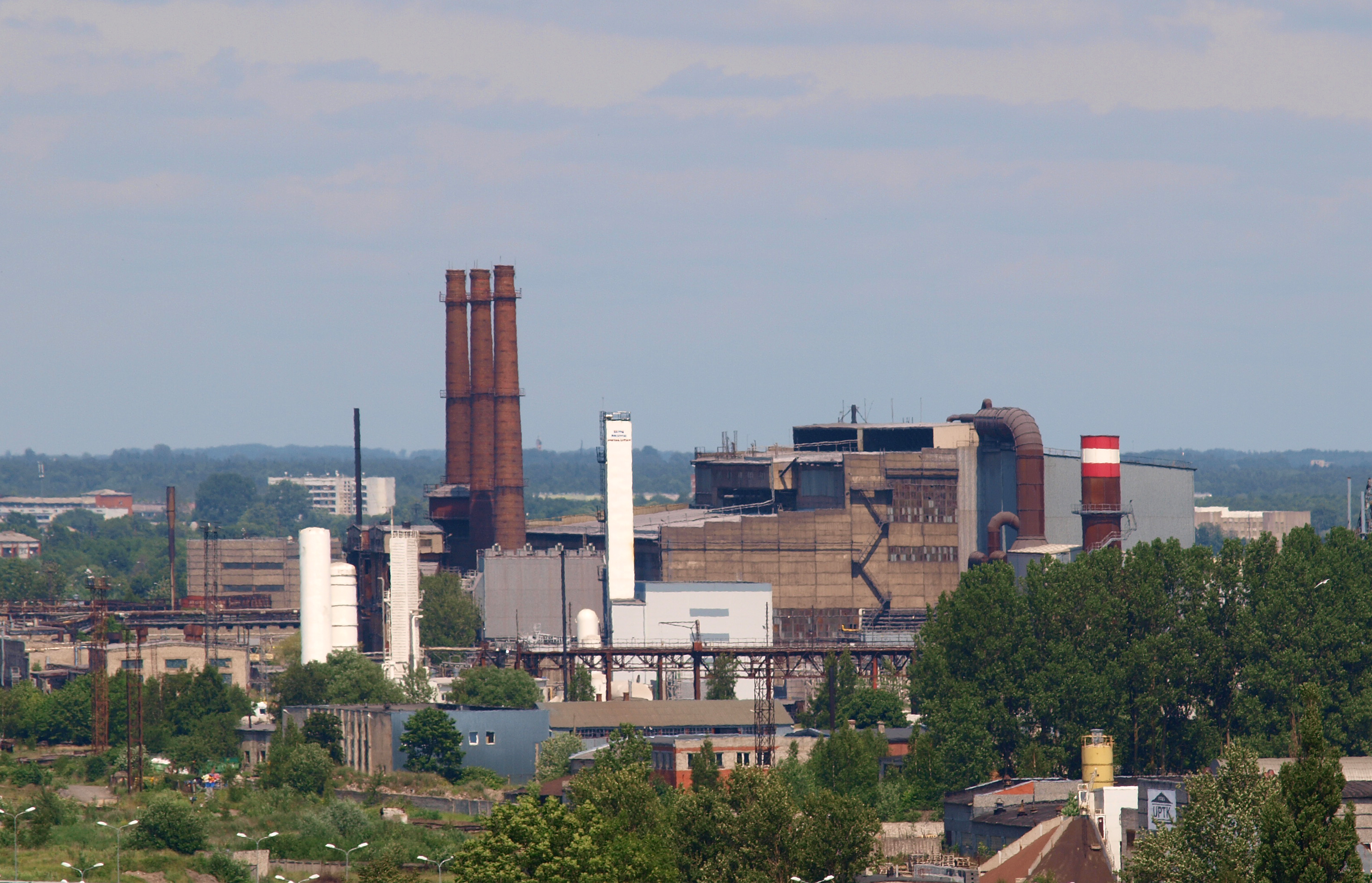 Liepajas Metalurgs, Liepaja, Latvia